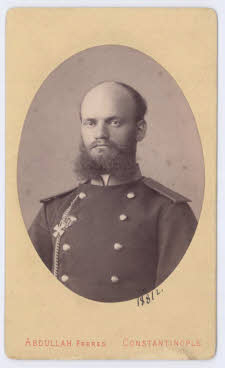 Captain Danail Nikolaev in 1881